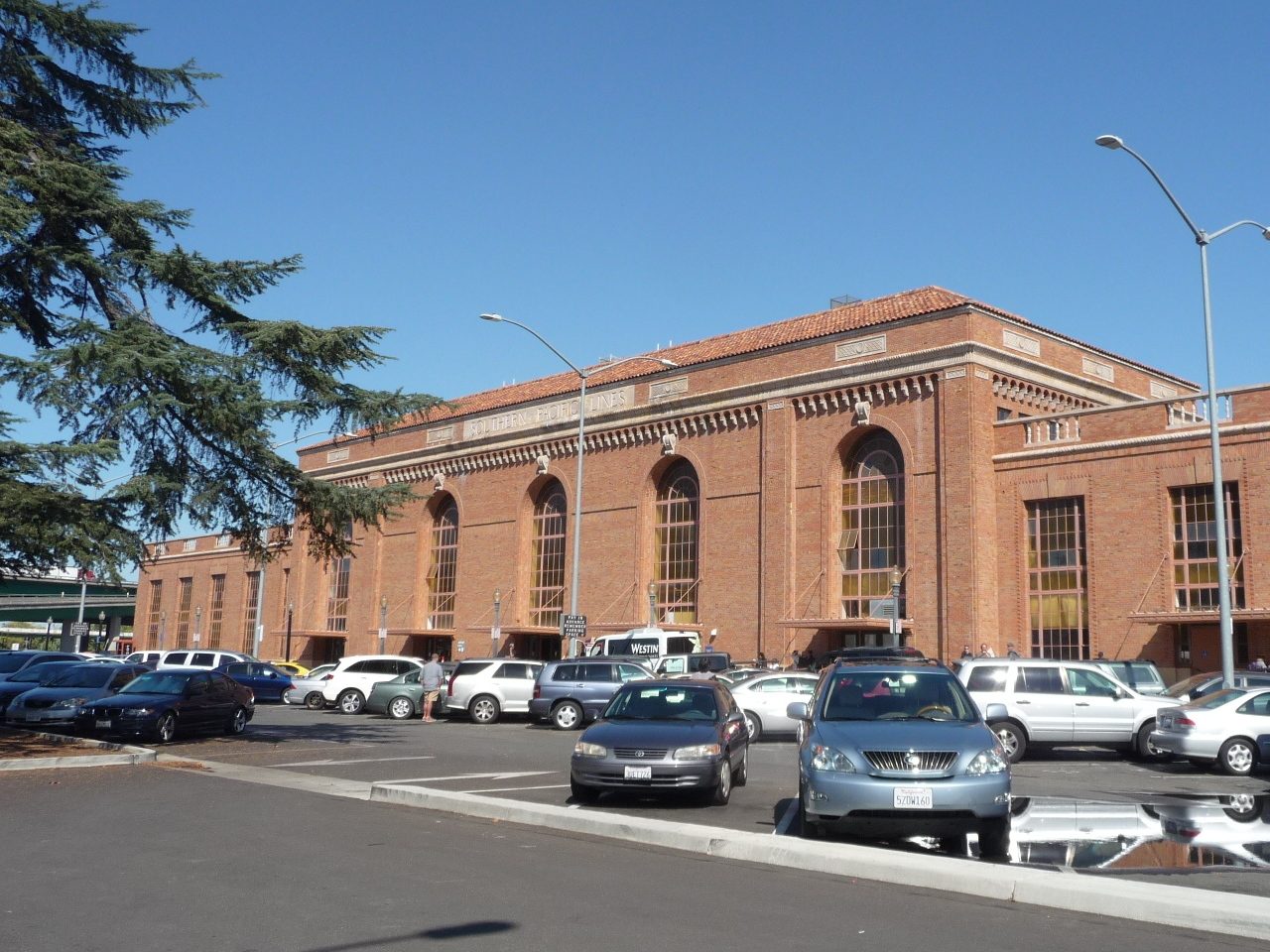 Sacramento Valley Station in Sacramento, California, USA